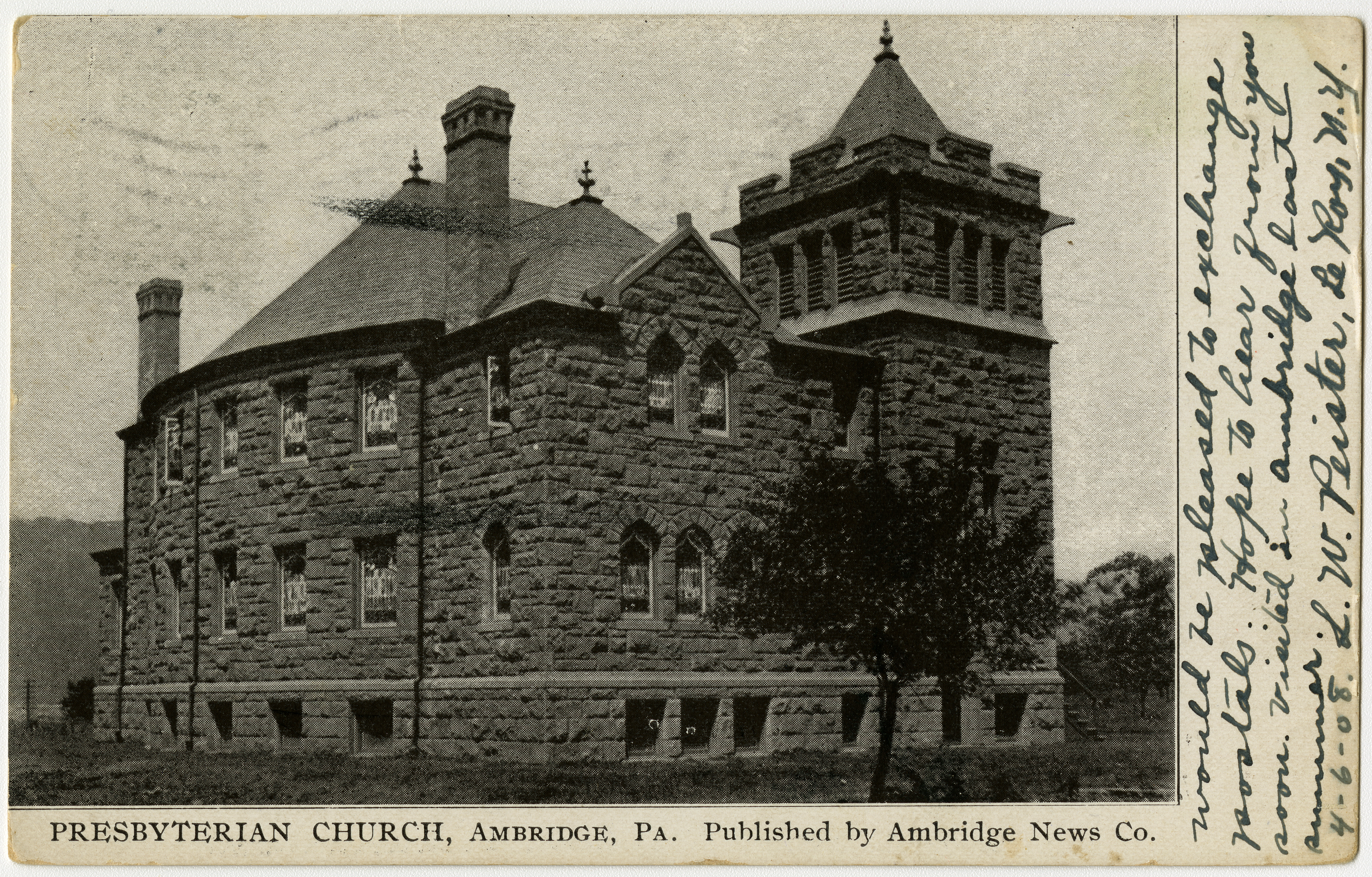 Presbyterian church in Ambridge, Pennsylvania from a pre-1923 postcard From RG 428, Postcard Collection, Presbyterian Historical Society, Philadelphia, Pennsylvania.